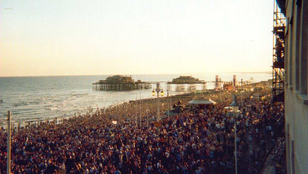 View of the 2002 Big Beach Boutique II, Brighton, UK, 17th July 2002.